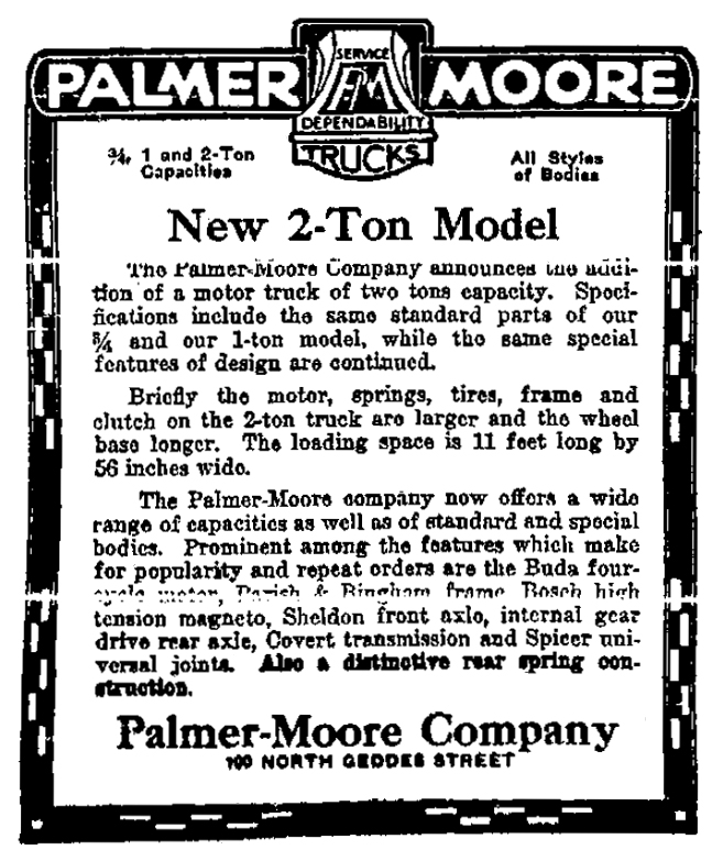 Palmer-Moore Company - Advertisement for new two-ton truck